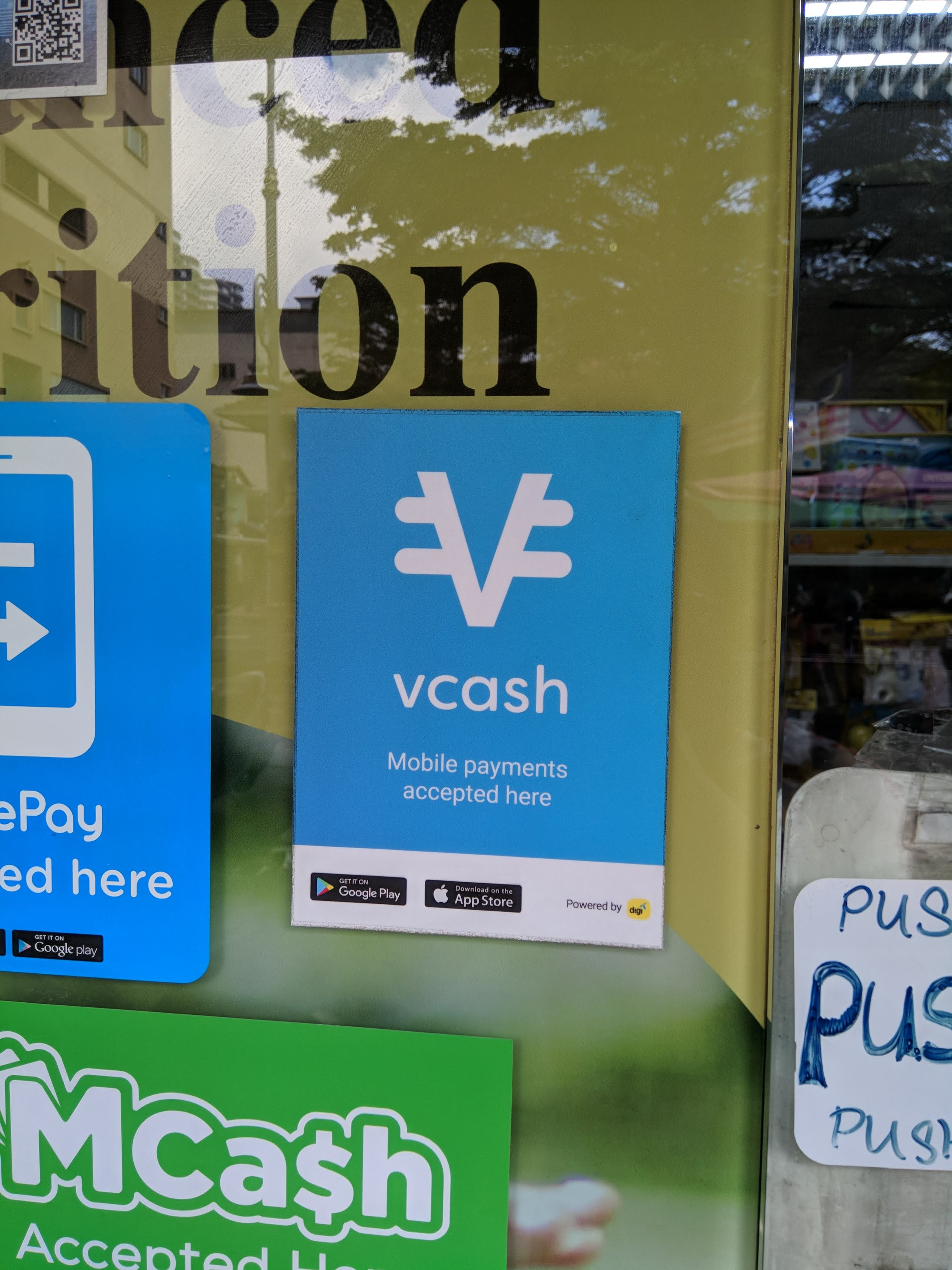 A shop accepting the vcash e-wallet payment service , which the service has been defunct since December 2019